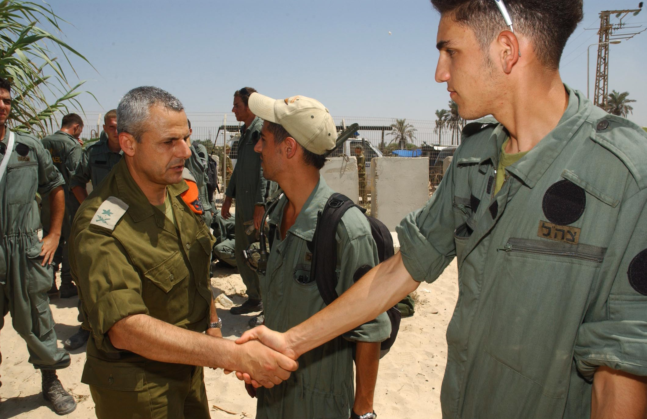 August 18, 2005. The evacuation of Shirat Hayam was part of the Gaza Disengagement, which occurred during the summer of 2005.